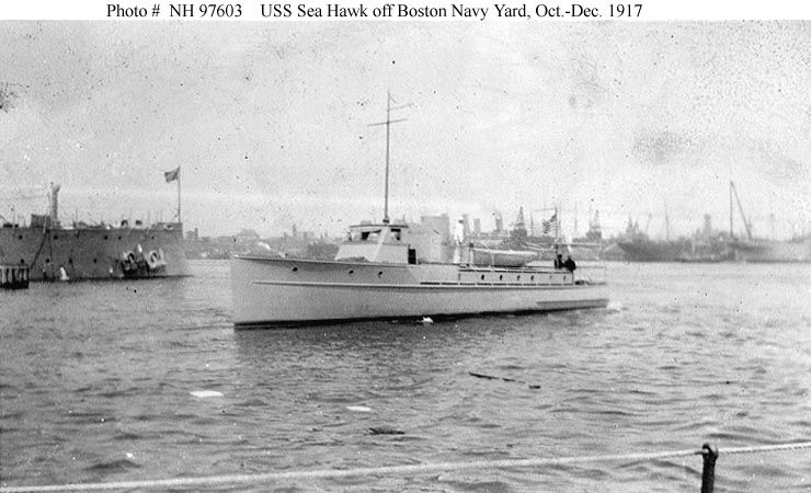 United States Navy patrol boat USS Sea Hawk (SP-2365) off the Boston Navy Yard, Boston, Massachusetts